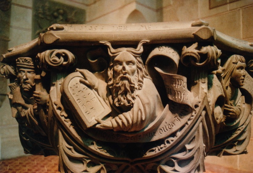 Moses on the 1518 baptismal font in St. Amandus, Bad Urach, Germany, by the sculptor Christoph von Urach.